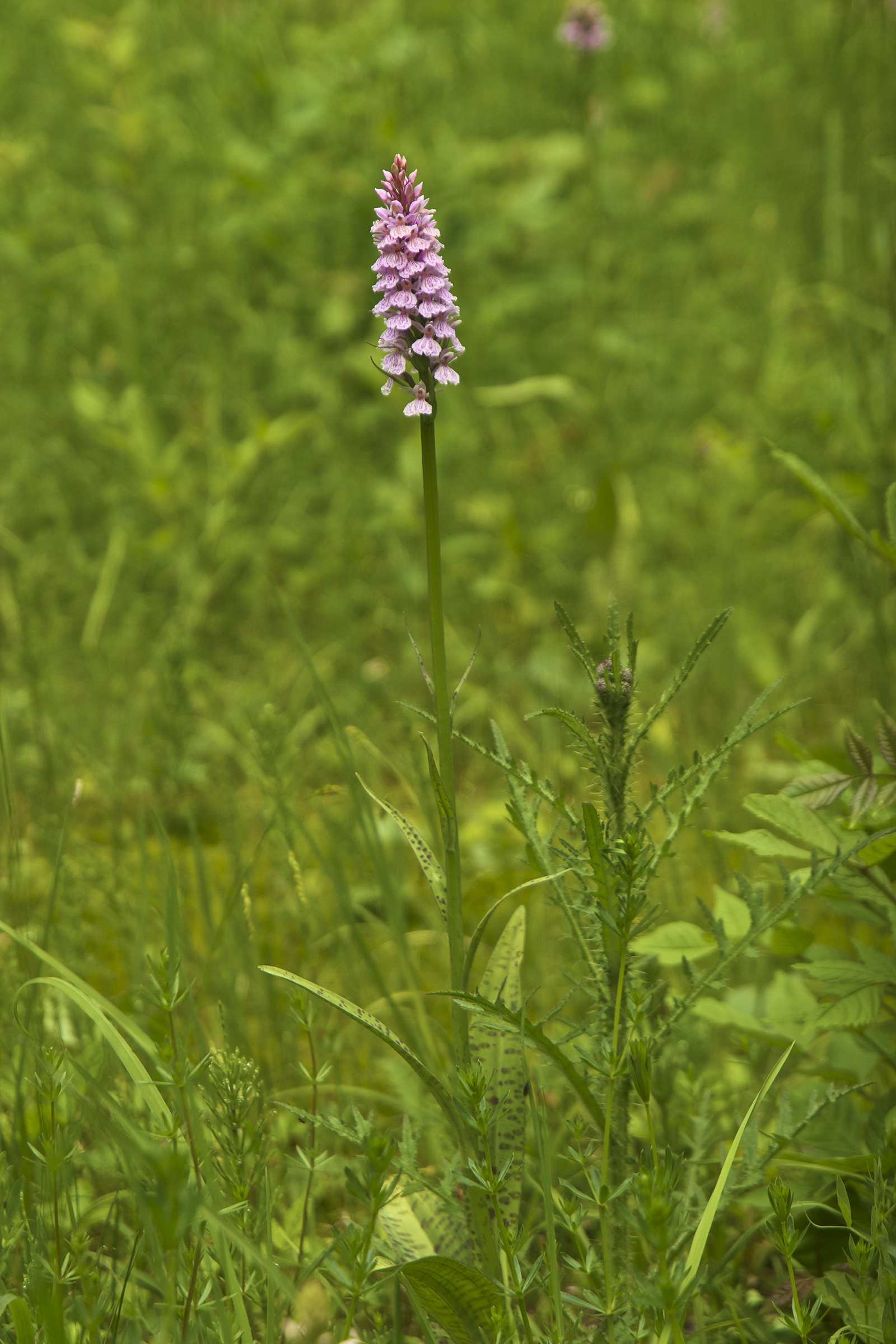 Heath Spotted Orchid (Dactylorhiza maculata), Lengefeld, Germany